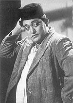 bhagawan dada's image